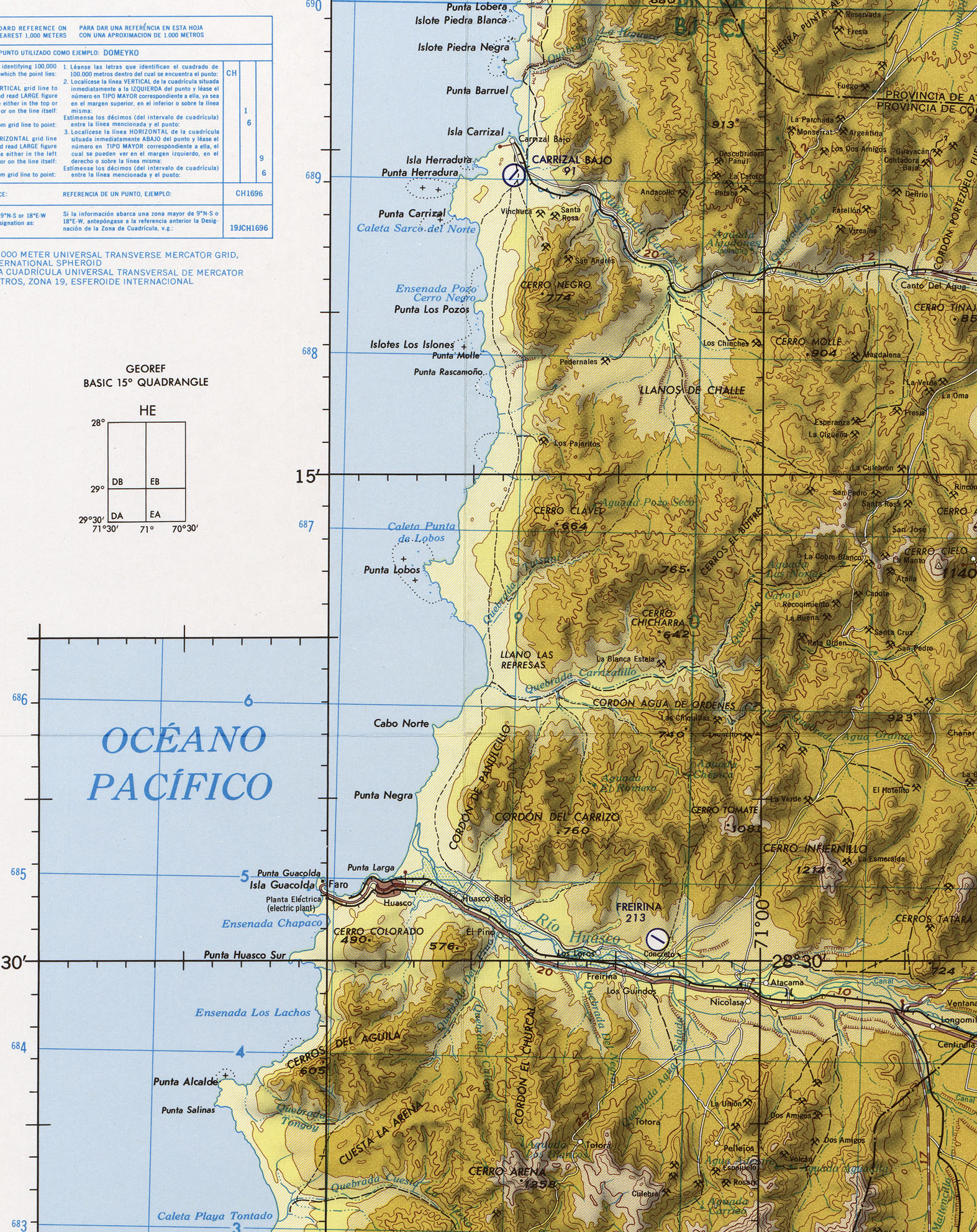 Huasco, Vallenar